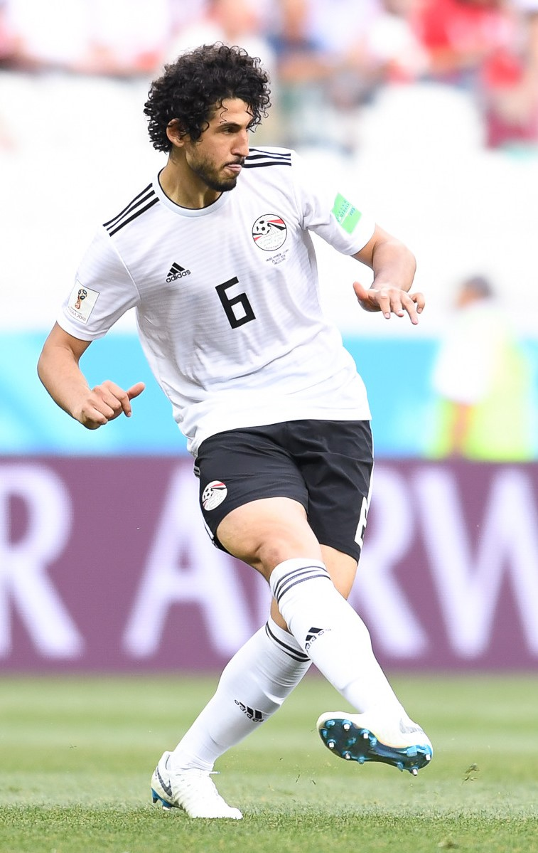 Ahmed Hegazy